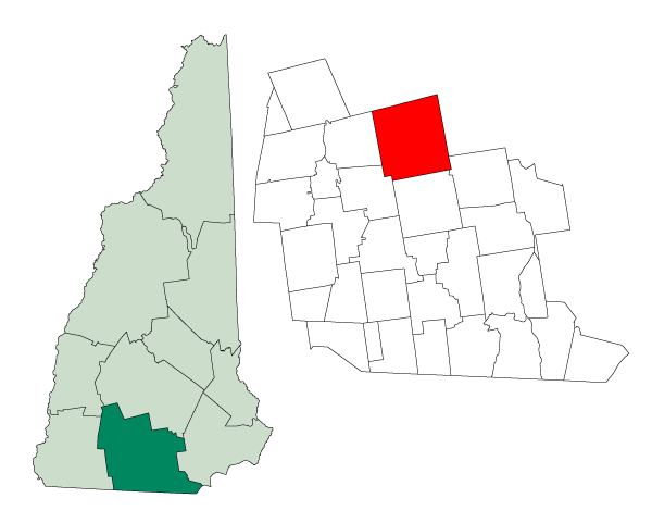 Map of a municipality in Hillsborough County, New Hampshire